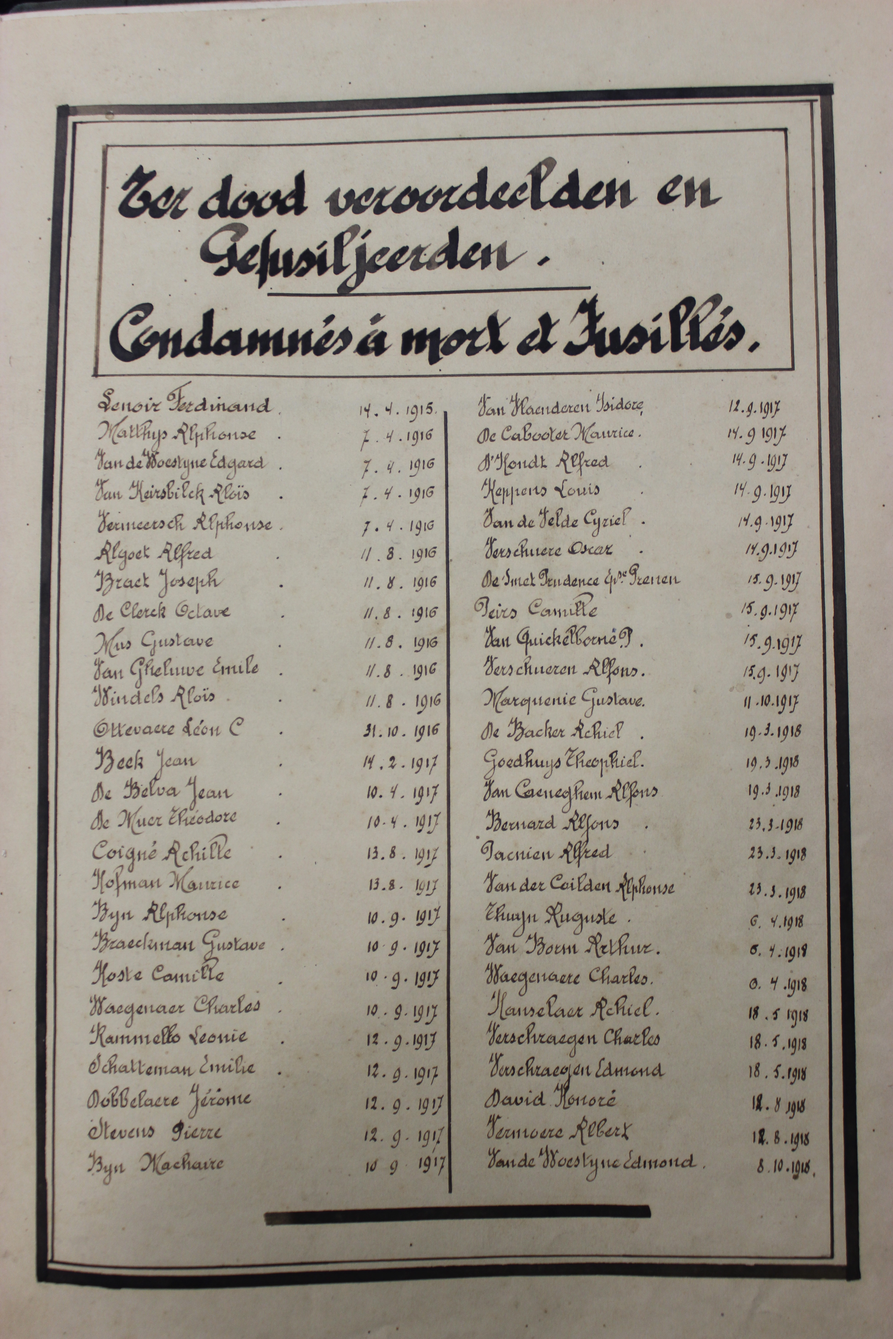 De lijst met alle namen van de geëxecuteerden.